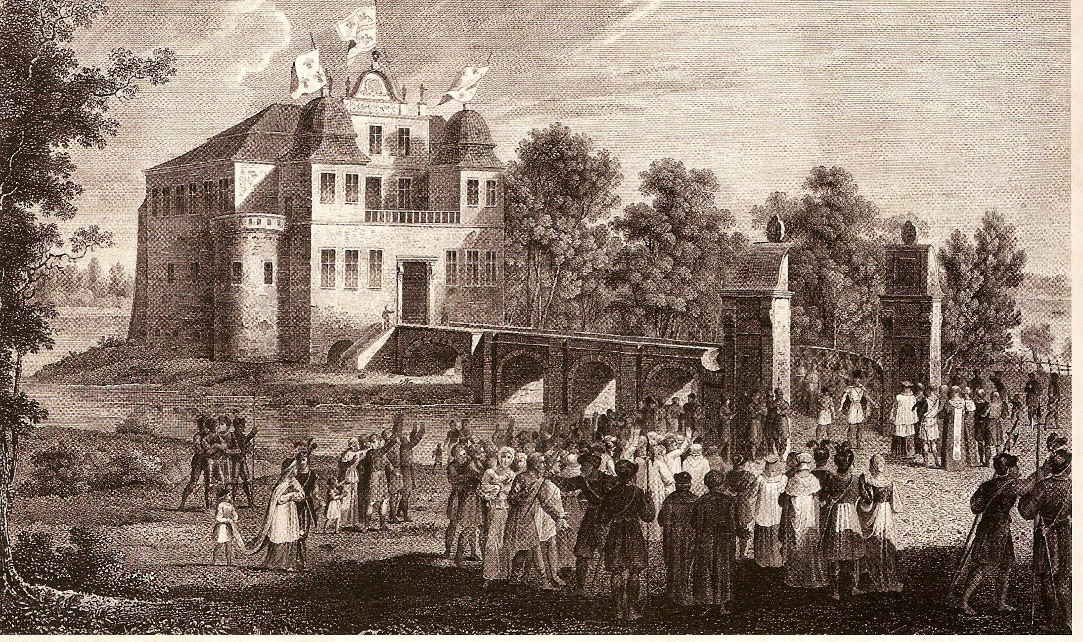 Kórnik Castle in the 18th century.